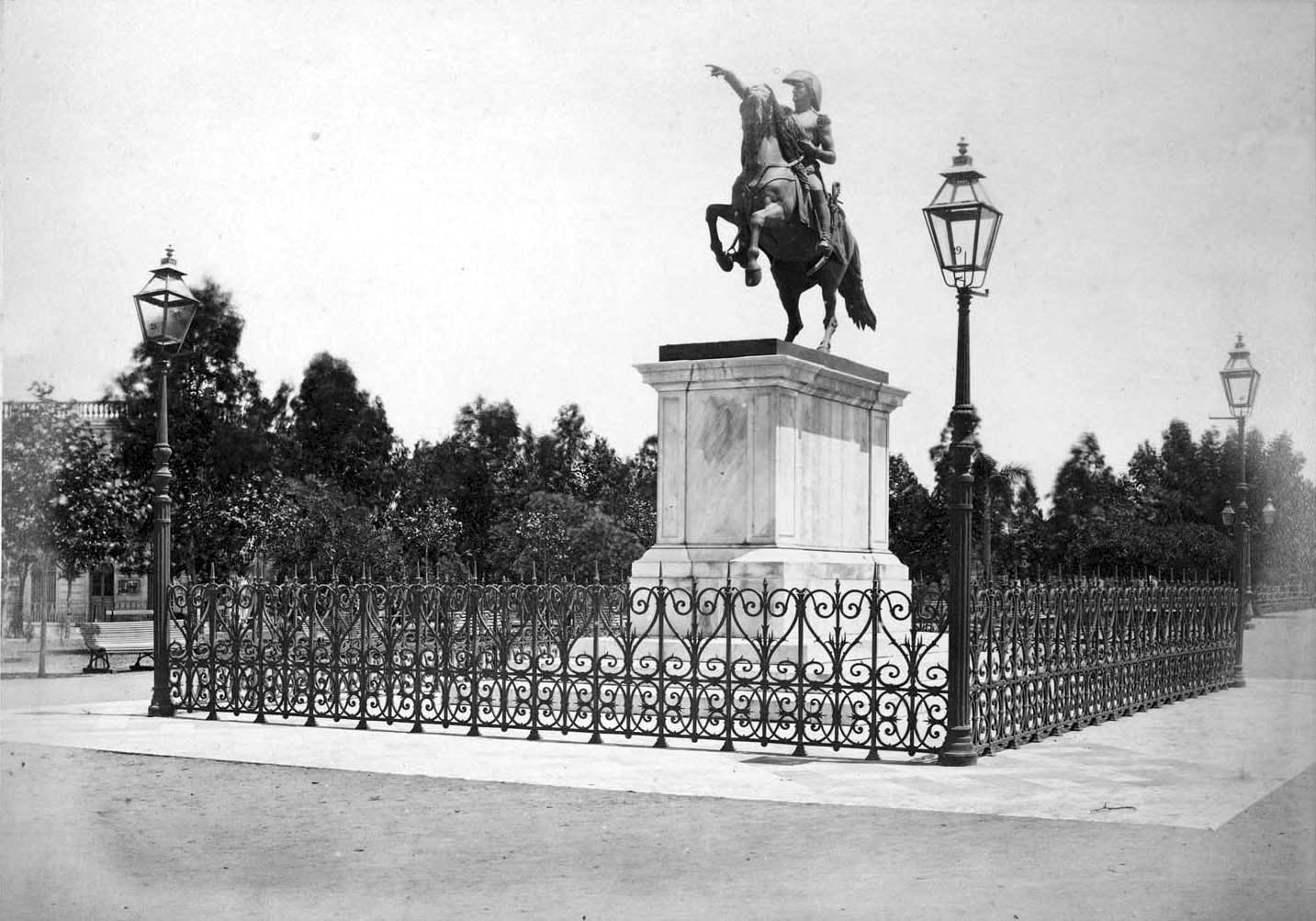 Equestrian statue of Argentine hero José de San Martín, sculpted by French artist Louis-Joseph Daumas (1801-1887). The monument was placed at Plaza San Martín of Buenos Aires and officially inaugurated by then President of Argentina, Bartolomé Mitre, on July 13, 1862.